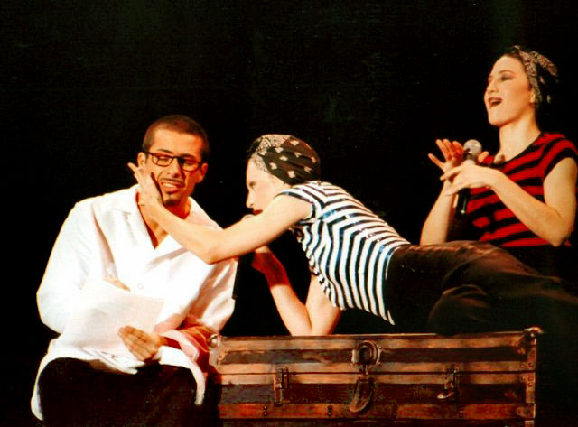 Photo taken during one of the concerts in 1993